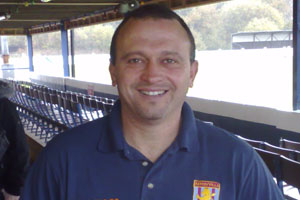 Photo taken by myself of Dave Norton after the friendly game between Aston Villa Old Stars Vs. BDF Newlife Eleven on November 18 2007.